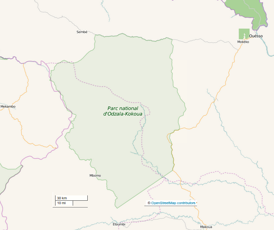 Boundaries of Odzaka National Park, Republic of the Congo (OSM) ː forest elephant and western gorilla conservation area in Central Africa. This map may be incomplete, and may contain errors. Don't rely solely on it for navigation.